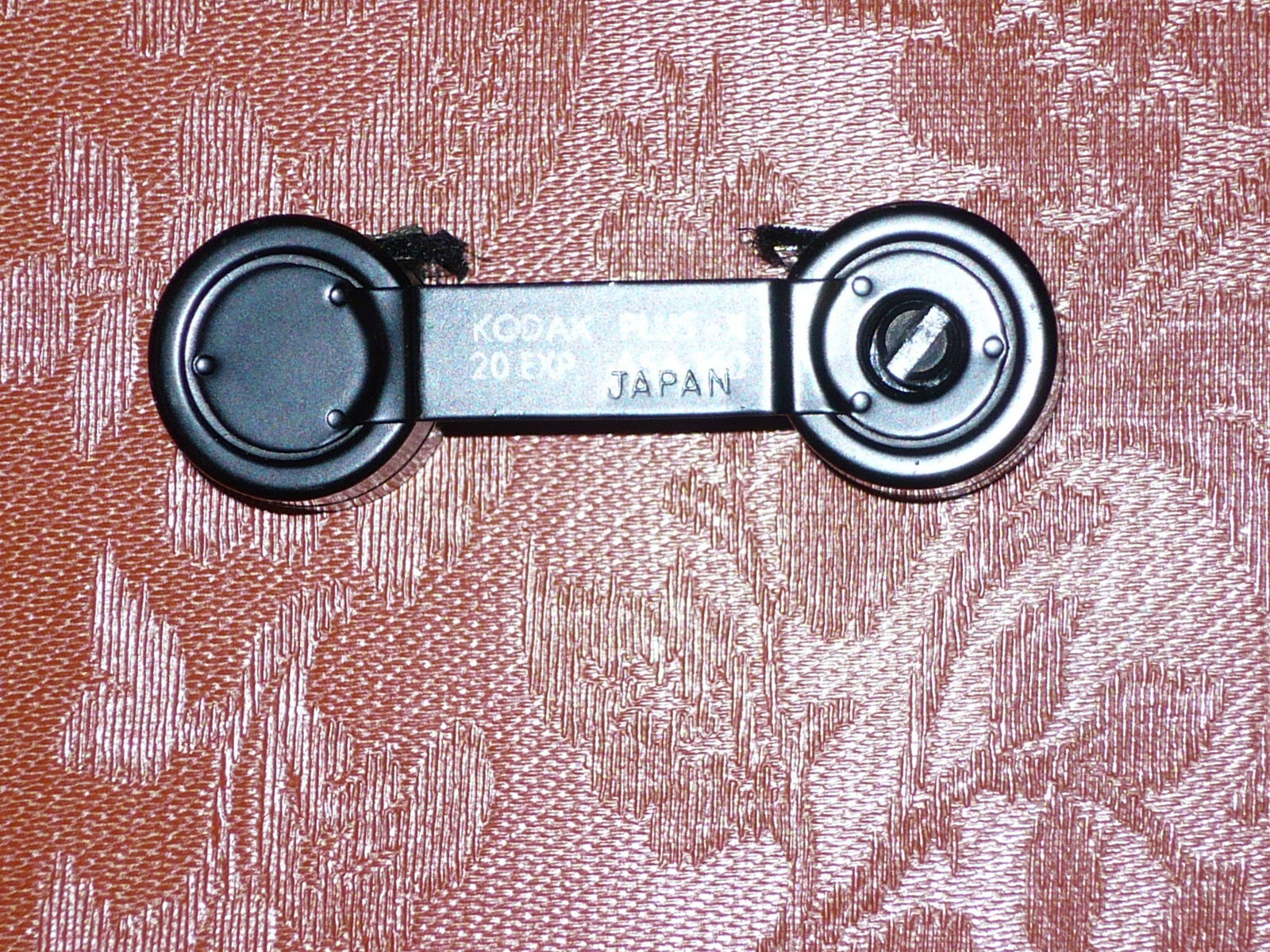 Golden Ricoh metal cassette